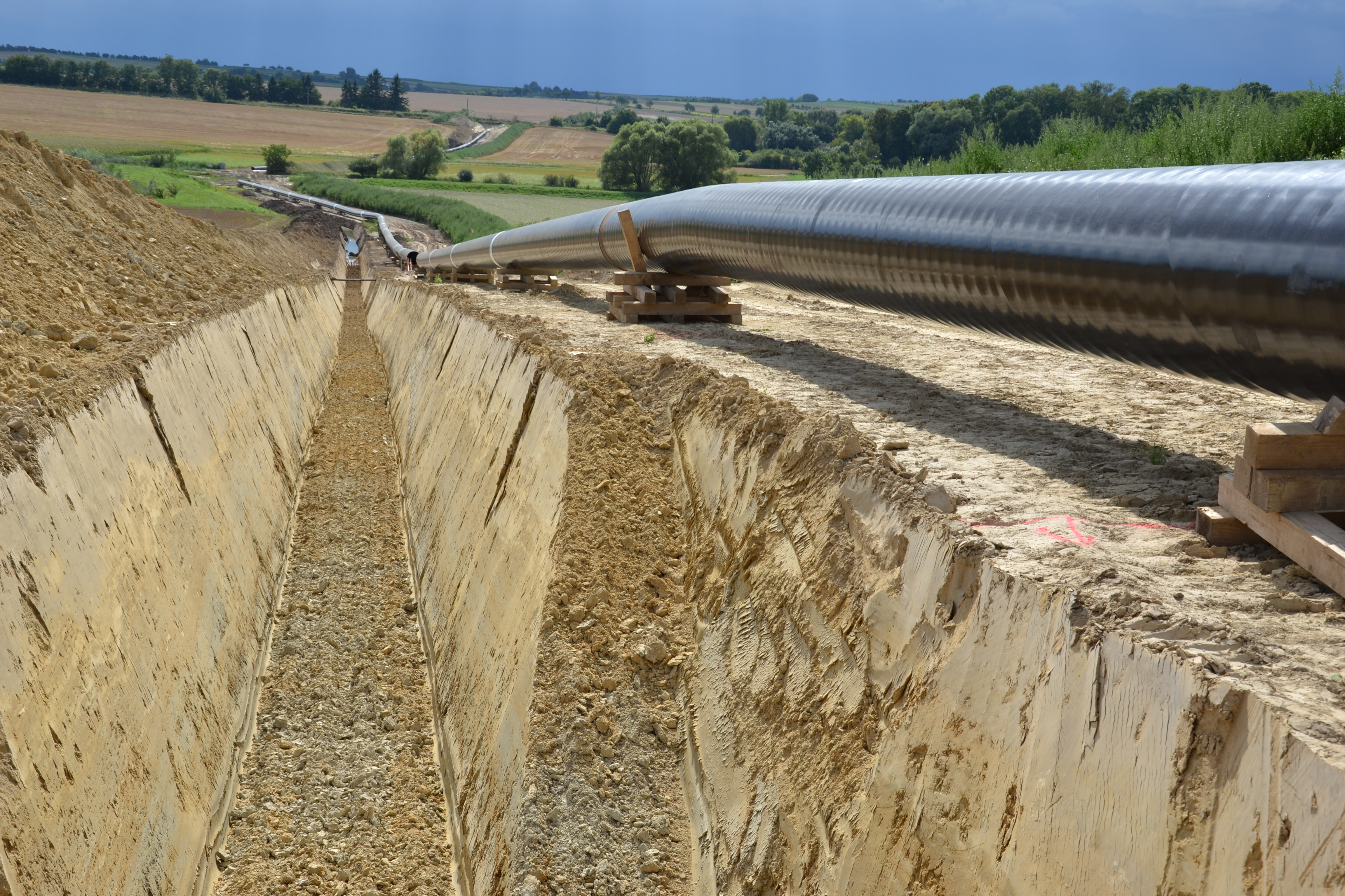 Pipeline Steel for natural GAS